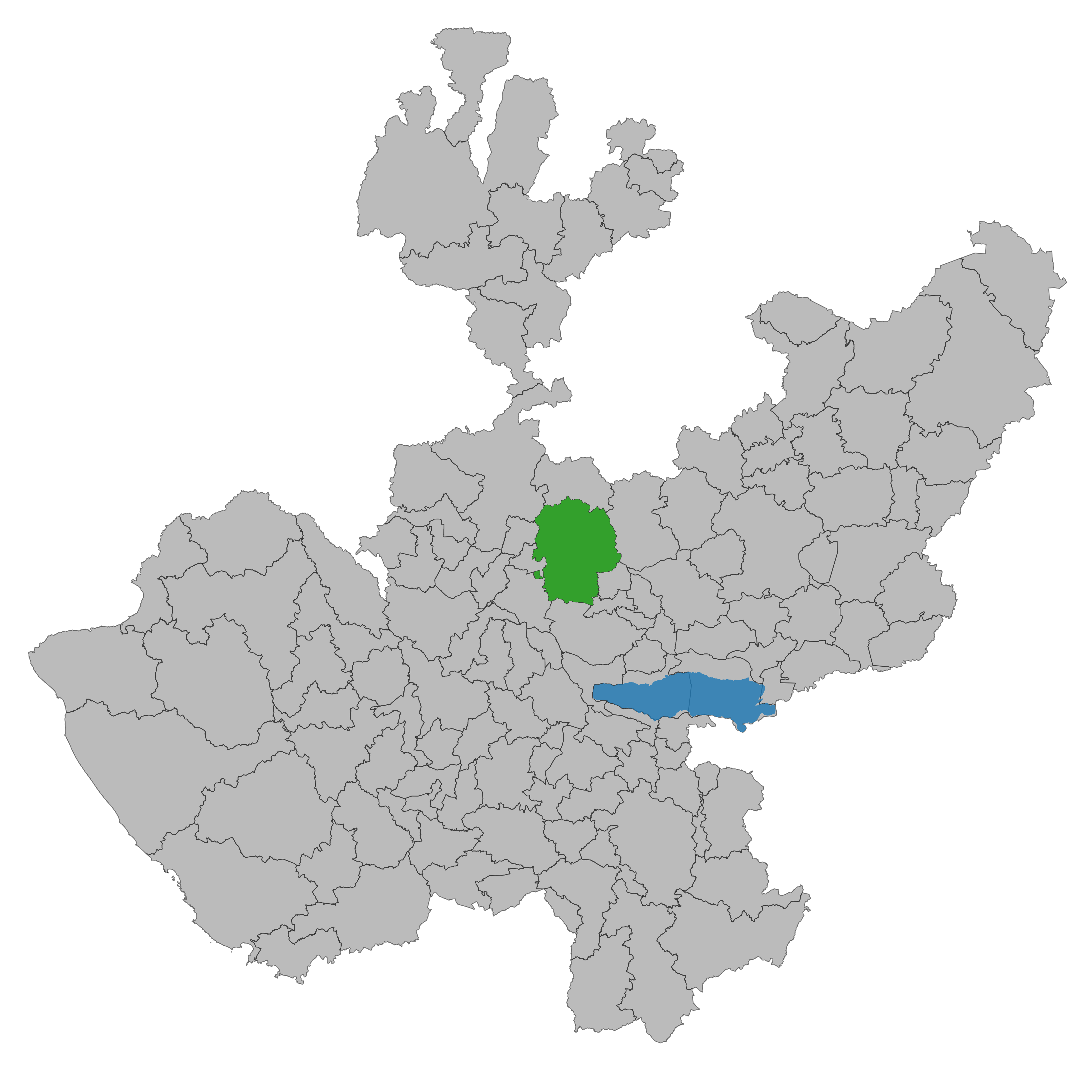 Municipality of Jalisco. Prepared with the software QGIS version 2.8.2 Wien & with information of SCINCE 2010 version 05/2013